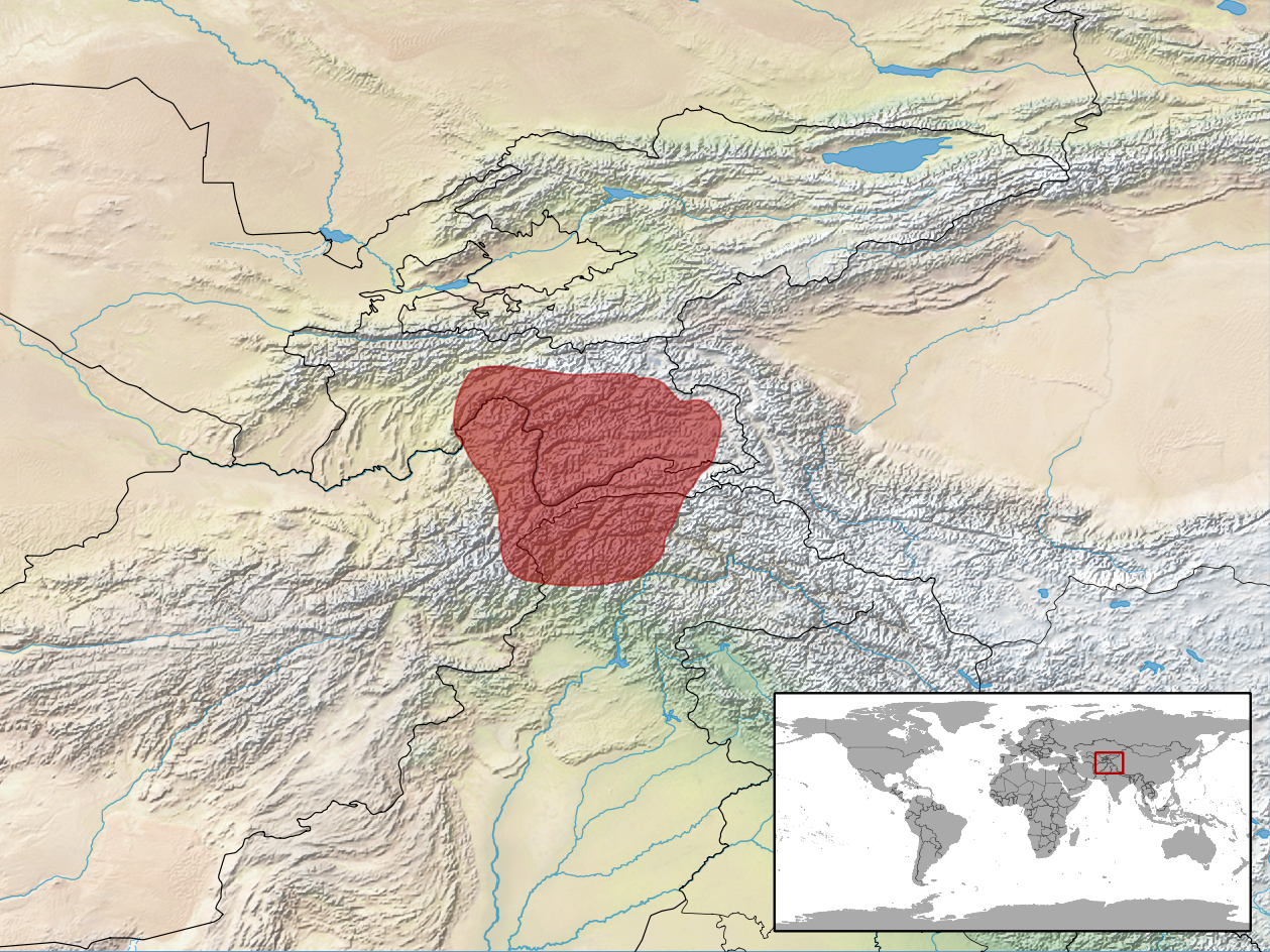 geographic distribution of Laudakia lehmanni (Native: Tajikistan)